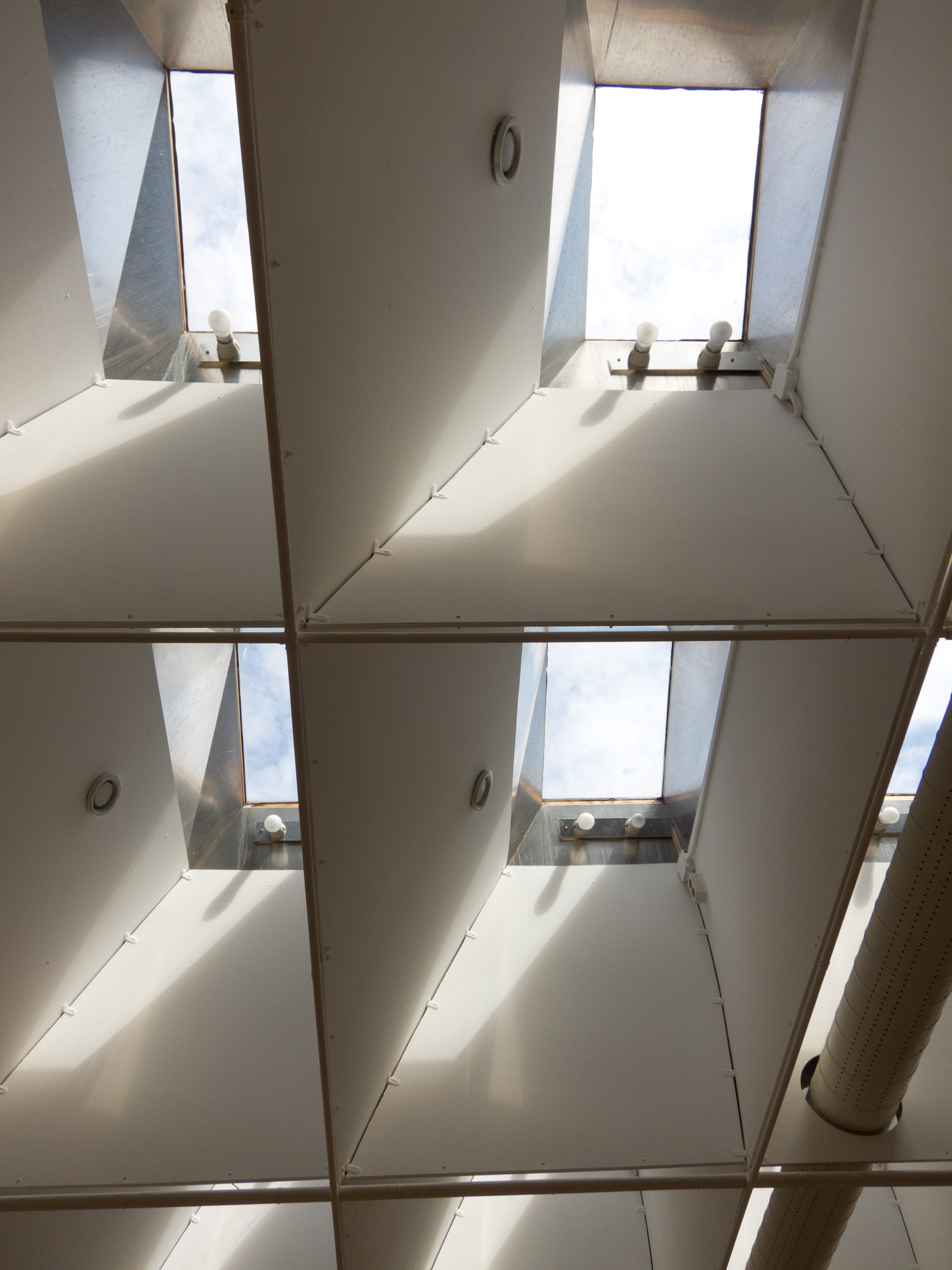 Ceiling lights in the Malmö Konsthall, (Malmö Art Museum), Malmö, Sveden.